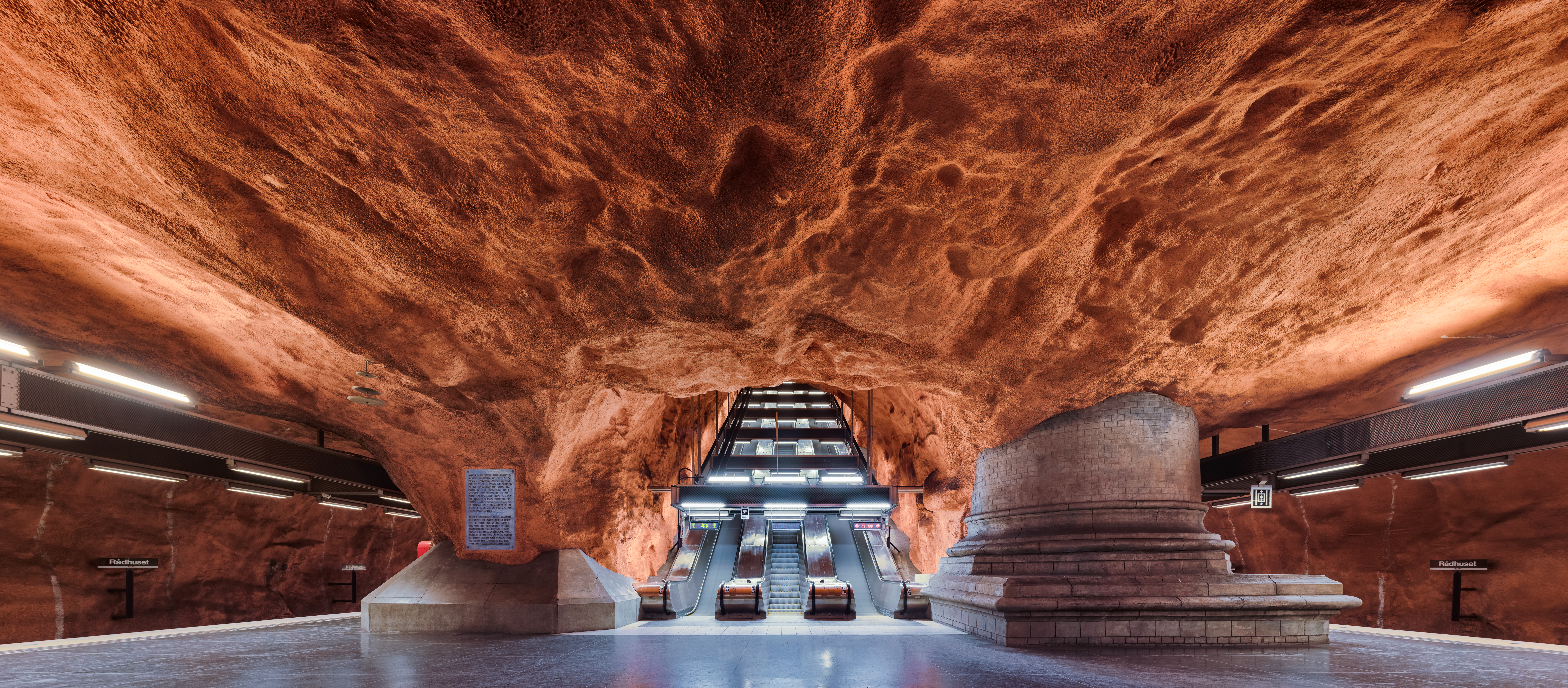 Rådhuset (Court House) underground metro station in Kungsholmen, Stockholm.